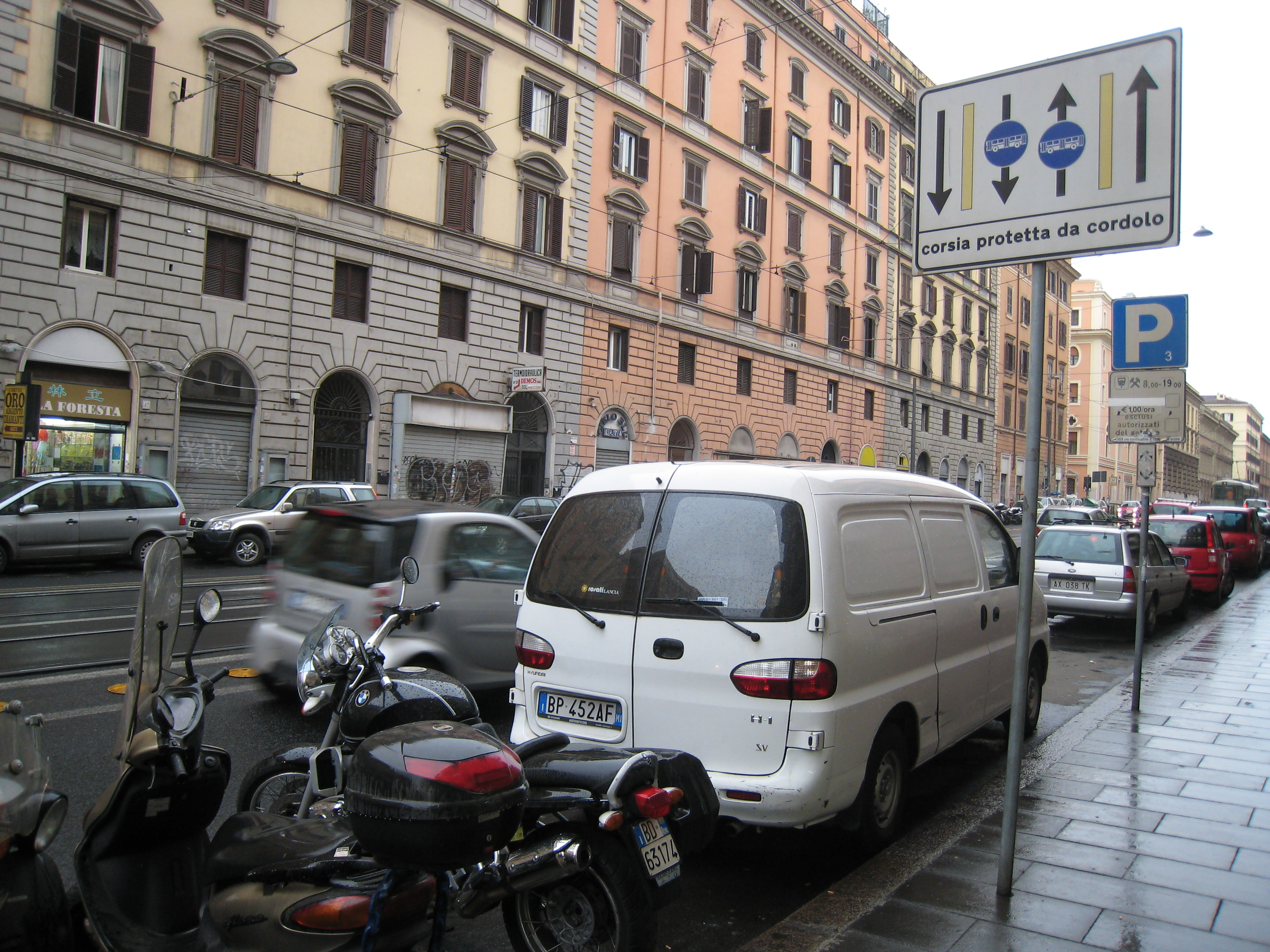 via Napoleone III